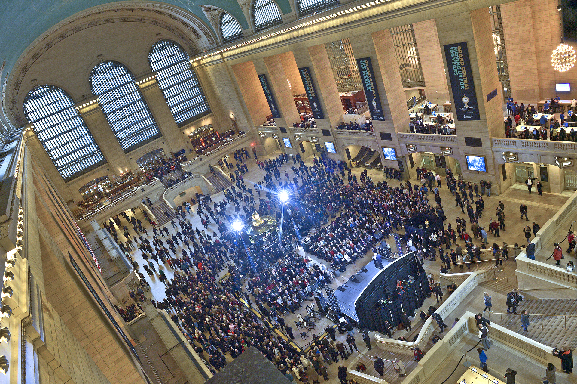 Grand Central Terminal's official 100-year anniversary celebration took place on February 1, 2013. This photo shows an overview of the celebration. Photo: Metropolitan Transportation Authority / Patrick Cashin